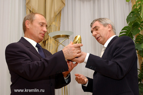 Georgy Yartsev in Kremlin